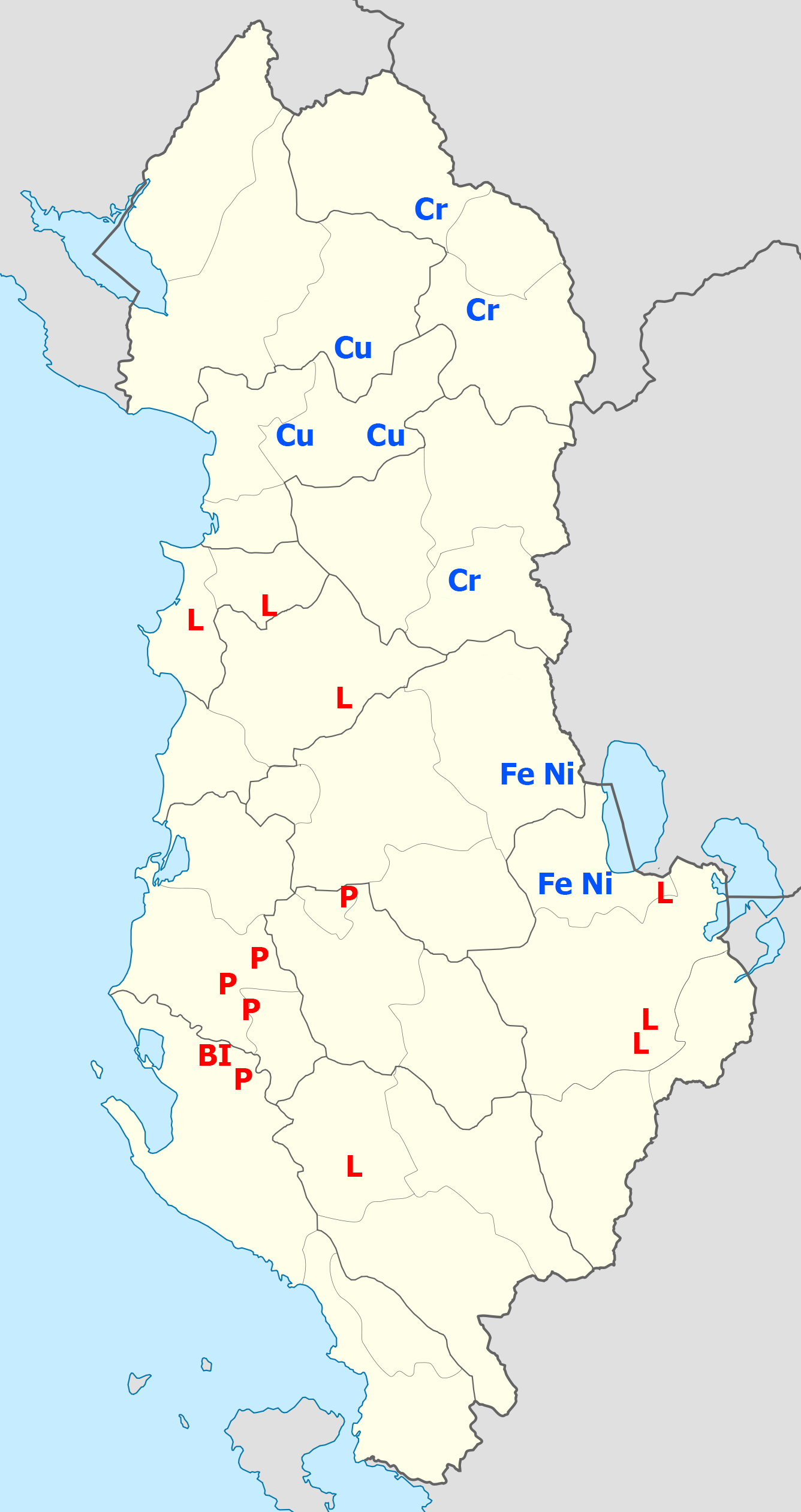 Natural resources of Albania. Metals are in blue (Cr, Fe, Ni, Cu), fossil fuels are in red (L — lignite, P — petroleum, BI — bitumen). Data is according to the map: Albania. Moscow: GUGK SSSR, 1982.